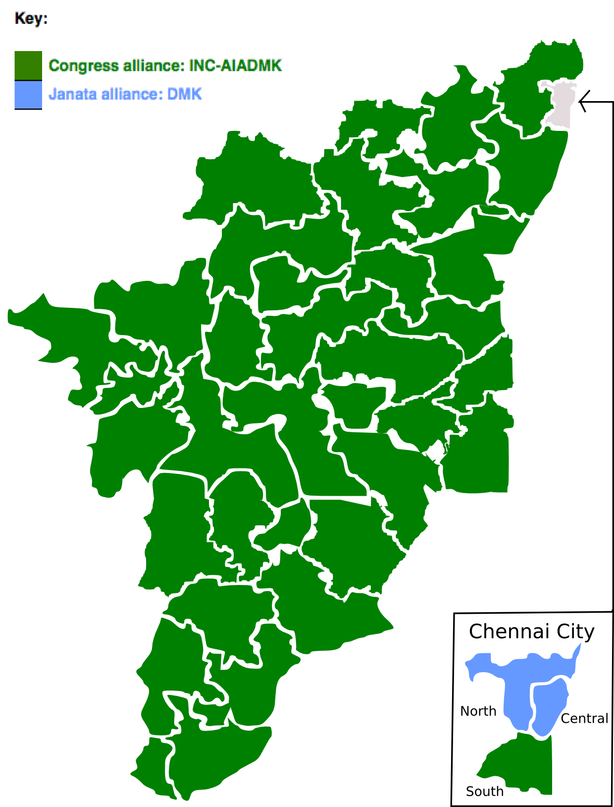 1984 Lok Sabha Election map for Tamil Nadu. Map is based on ECI drawn map. Results are based on ECI website.